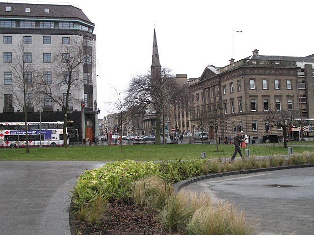 George Street from St Andrew's Square